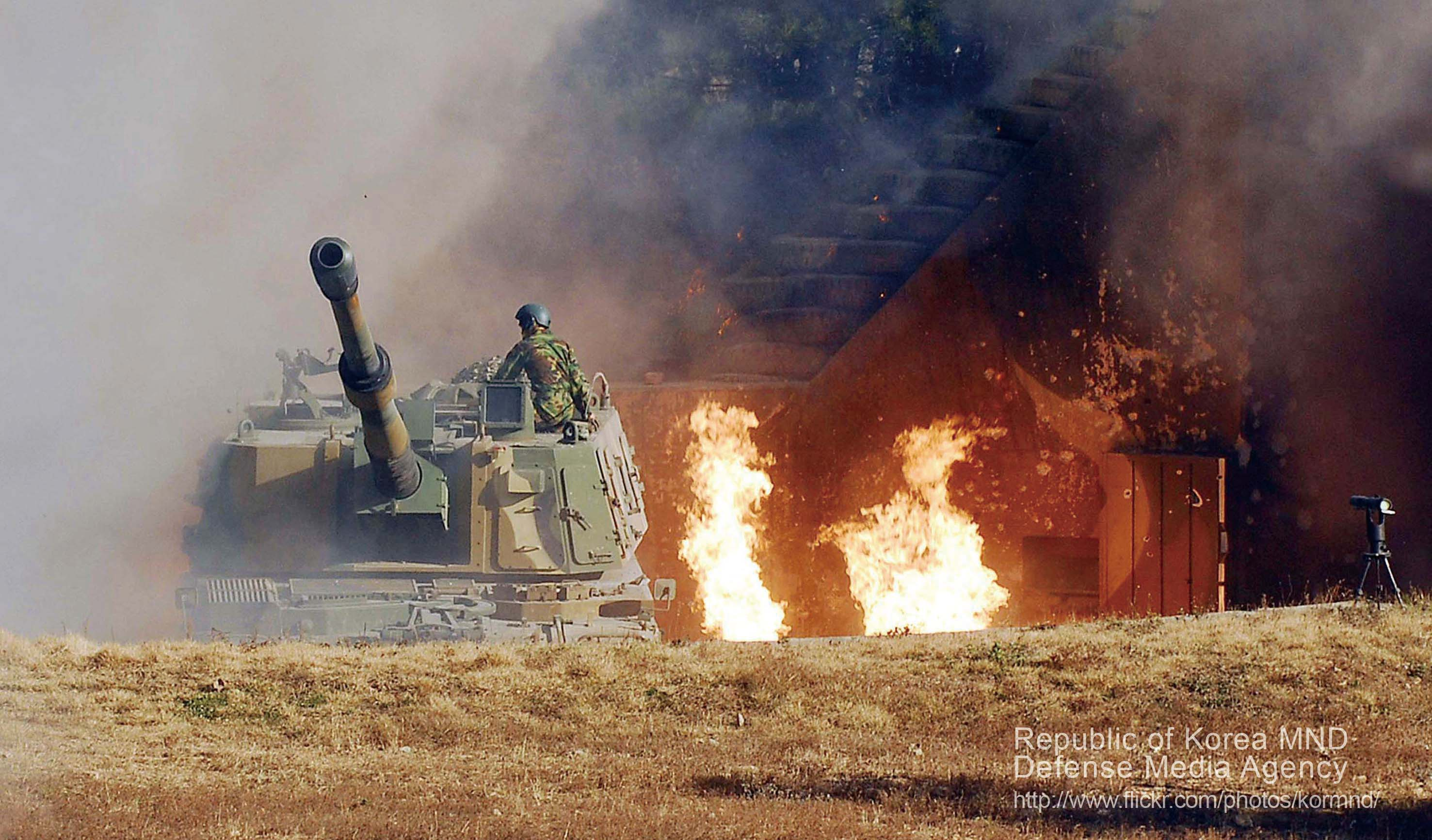 2010 국방화보 Rep. of Korea, Defense Photo Magazine 11월 23일 해병대 연평부대 K - 9 진지에서 한 해병대원이 북한의 기습적인 포탄 공격에 긴급 대응 사격 준비를 하고 있다. ROK Marine soldier is preparing for an quick counter fire after the surprise shelling by North Korea, November 23.